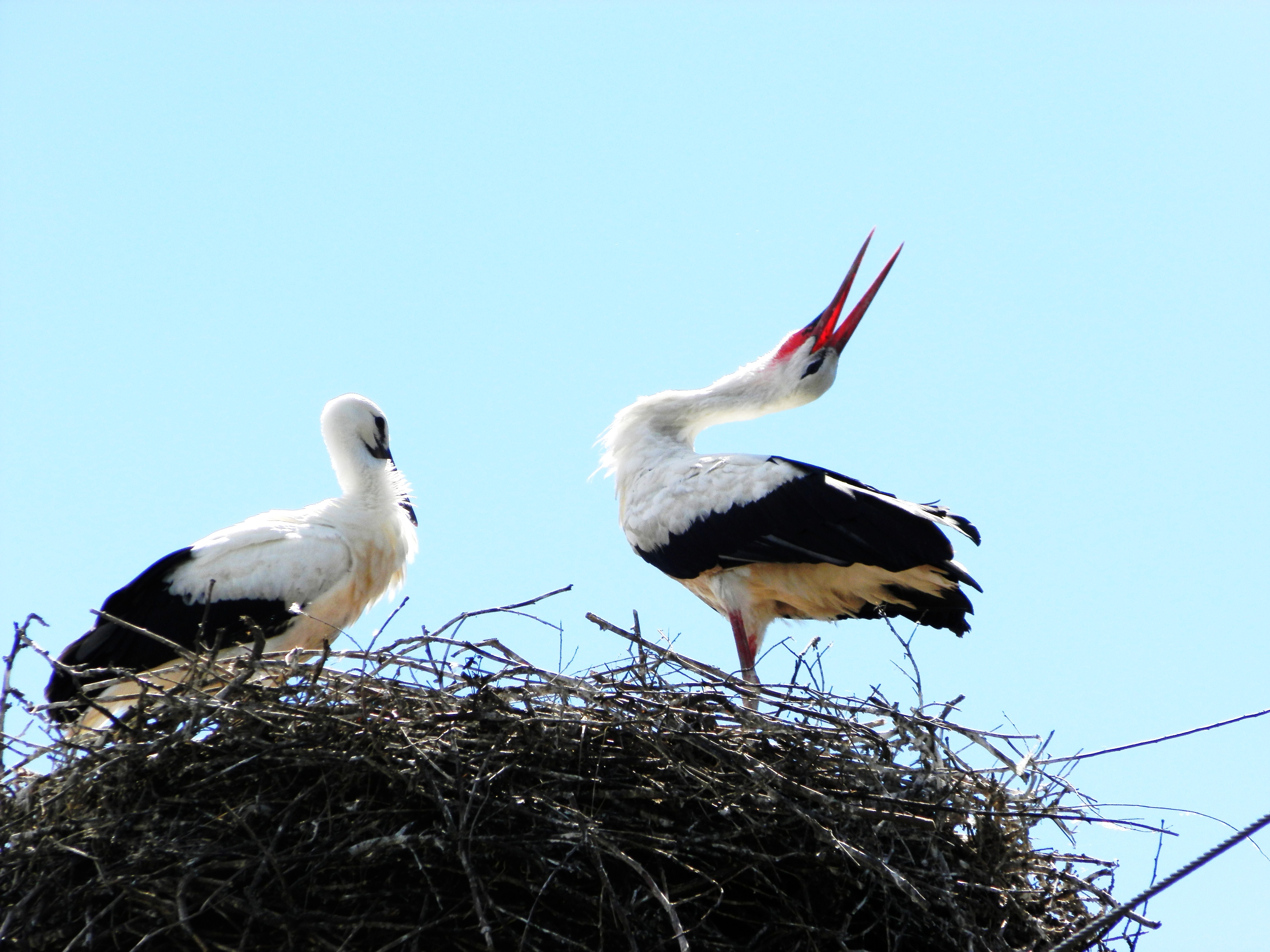 white stork